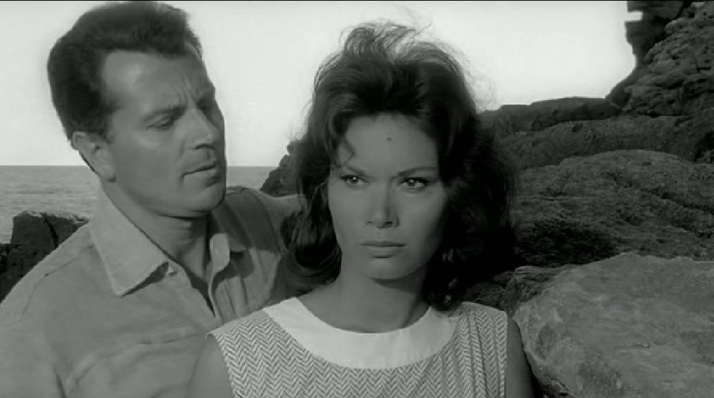 Screenshot from the film L'avventura (1960), Gabriele Ferzetti and Lea Massari.